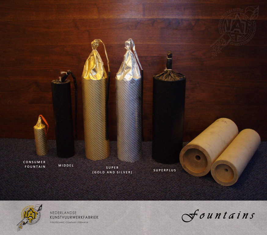 Kunstvuurwerkfabriek van der Nat folder of the different Van der Nat fountains.